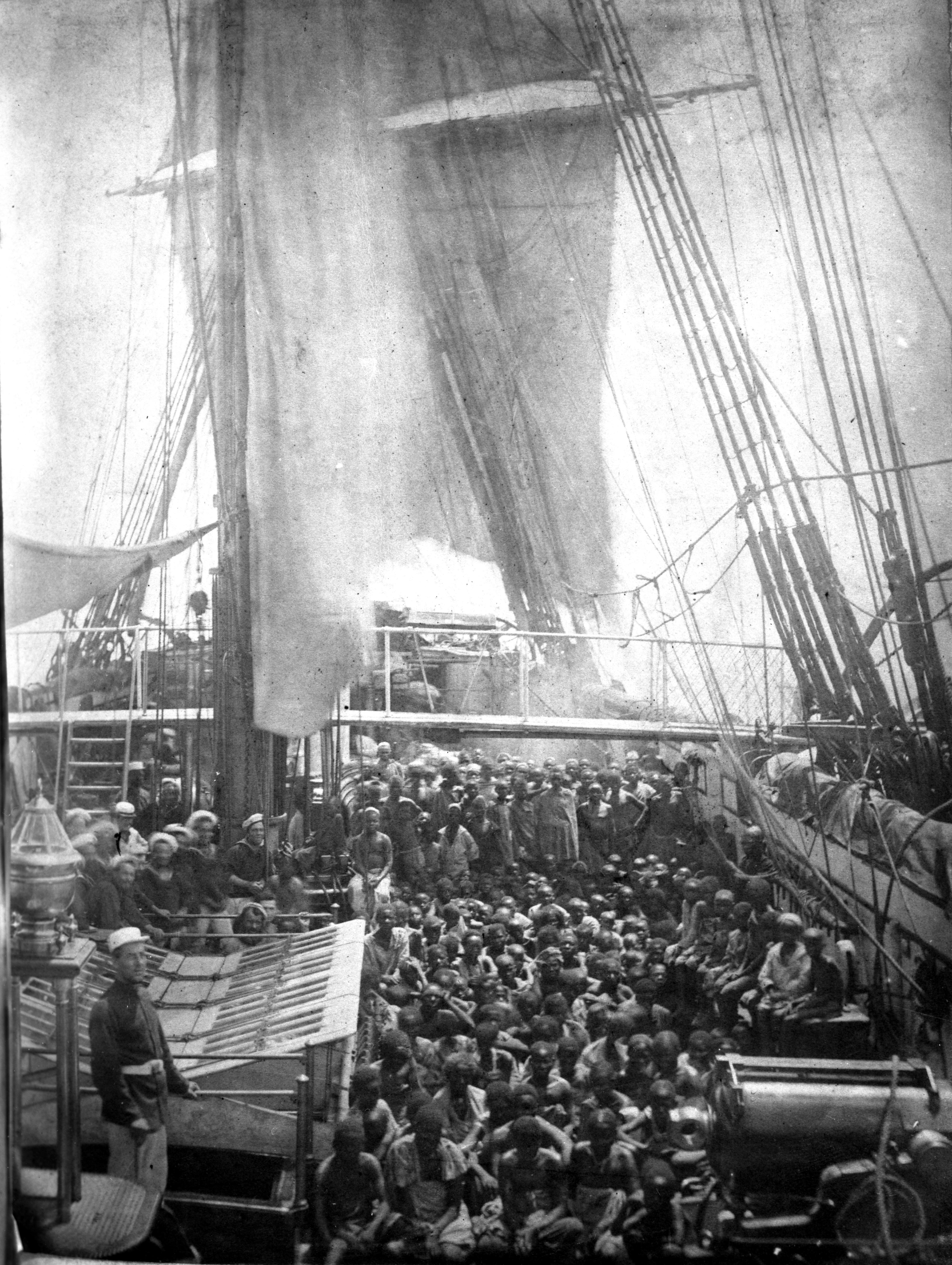 Description: Rescued East African slaves taken from a dhow aboard HMS Daphne, a British naval ship used to prevent the transportation of enslaved people. The National Archives' online lesson on slavery can help students explore this topic further: Date: 1868 Our Catalogue Reference: FO 84/1310 This image is from the collections of The National Archives. Feel free to share it within the spirit of the Commons. For high quality reproductions of any item from our collection please contact our image library.